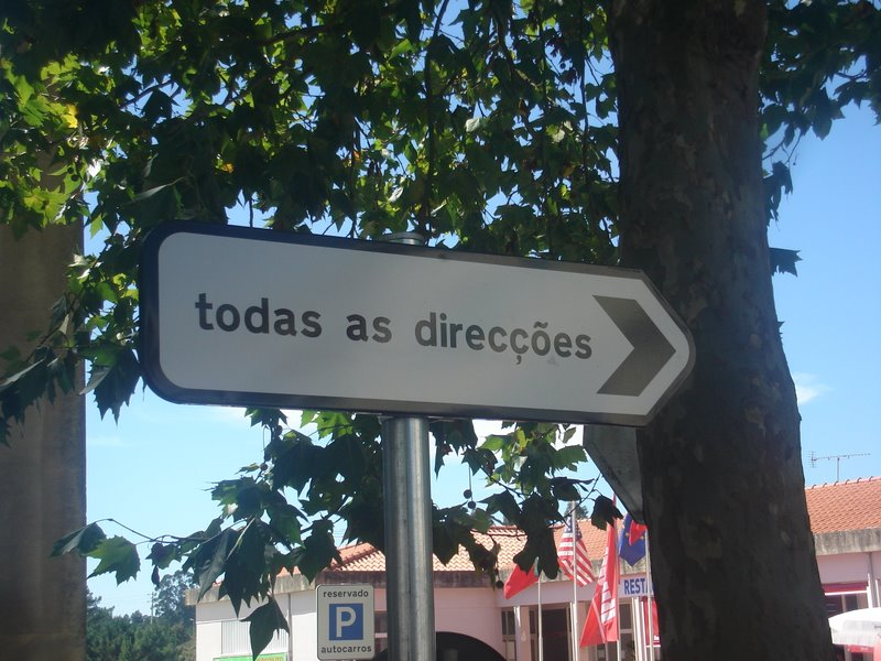 Placa de todas as direcções, em Portugal.